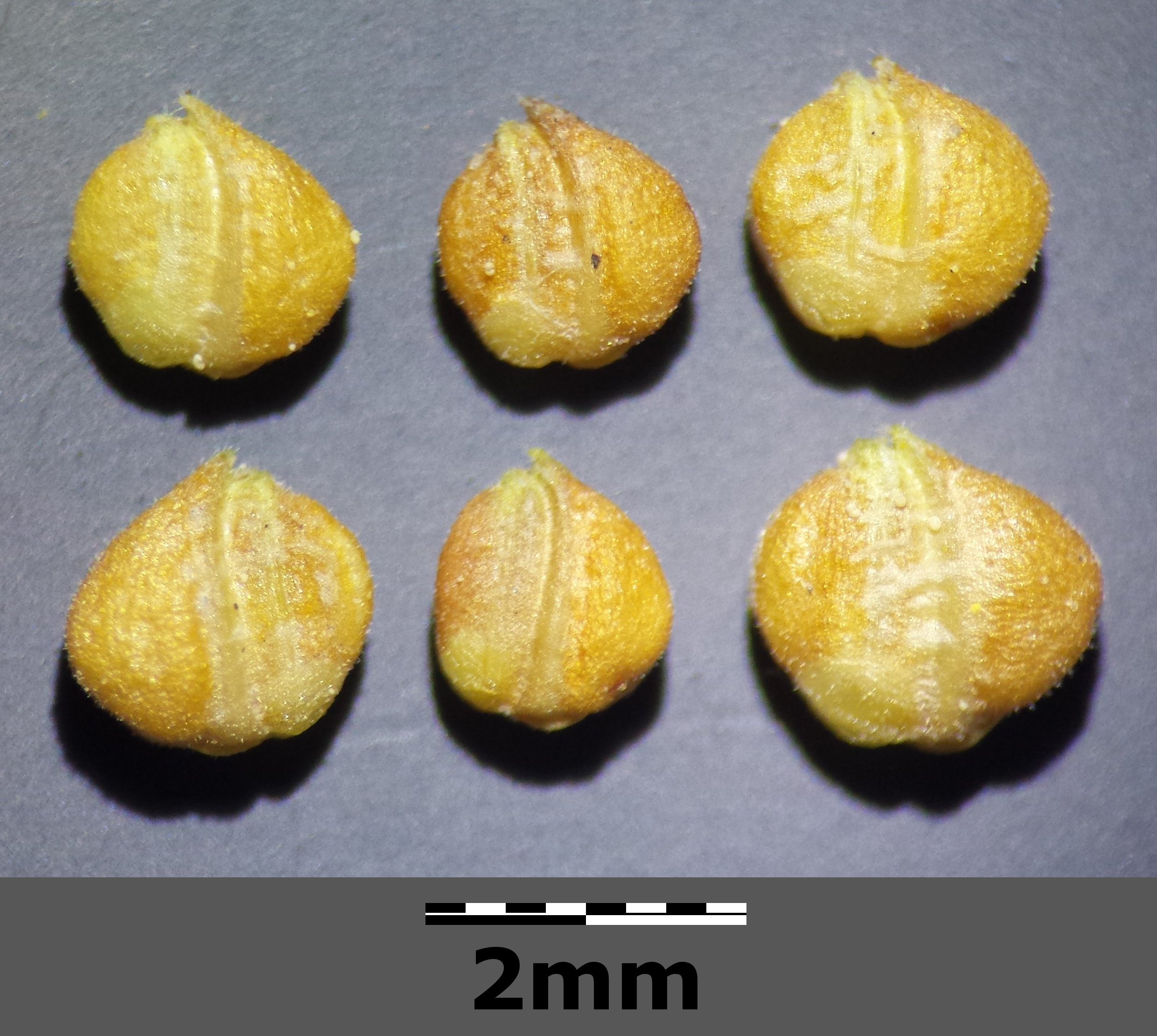 Fruits Taxonym: Valerianella locusta ss Fischer et al. EfÖLS 2008 ISBN 978-3-85474-187-9 Location: Neue Donau, Vienna-Floridsdorf - ca. 160 m a.s.l. (leg. 2015-05-11) Habitat: wayside/slope